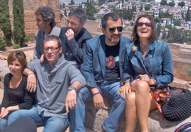 Cast of Spanish TV show Buenafuente.